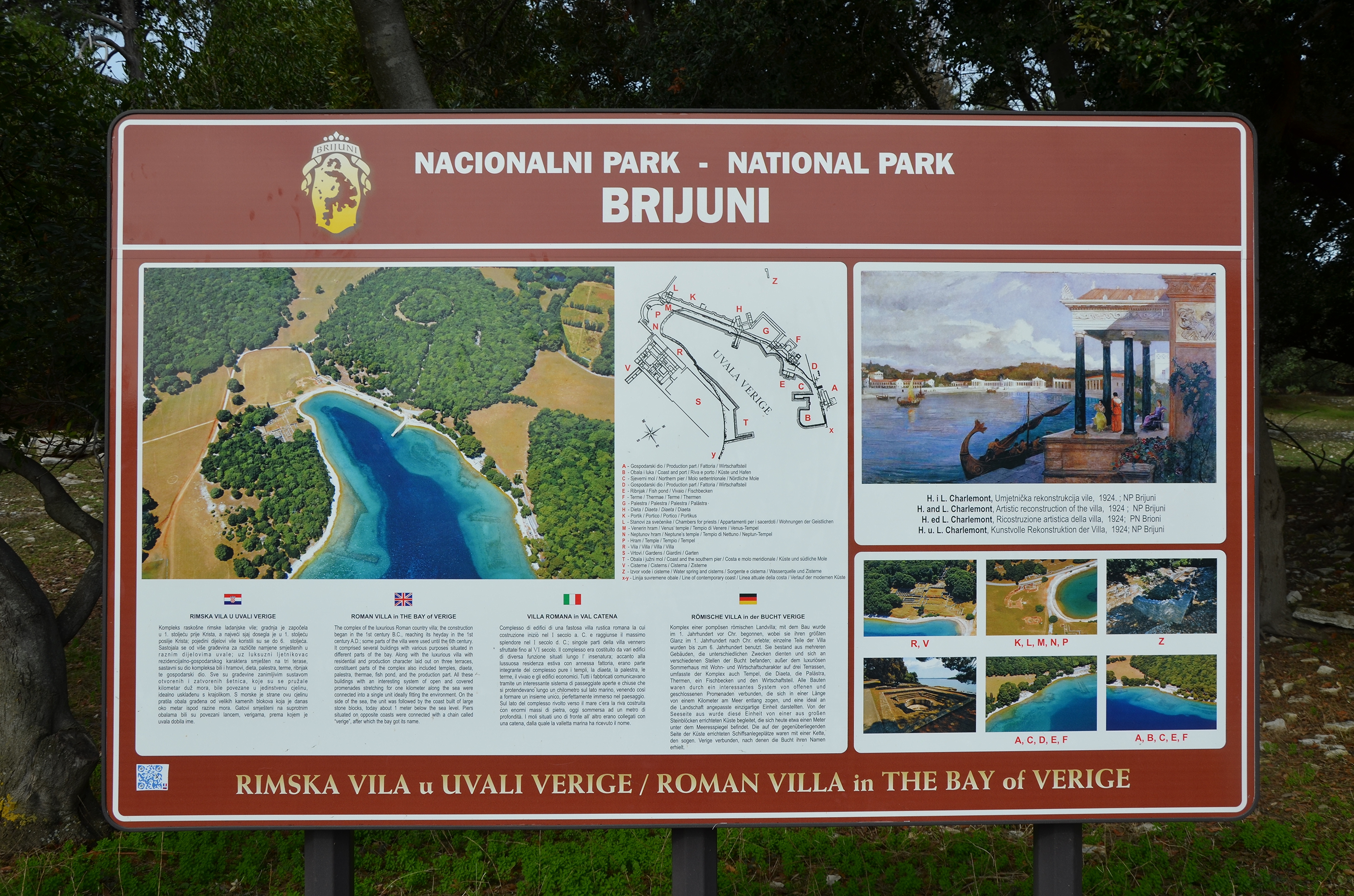 Roman Villa in the Bay of Verige, Brijuni Islands, Croatia